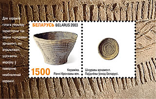 Corded ornament. South-east of Belarus. Ceramics. Early Bronze Age.